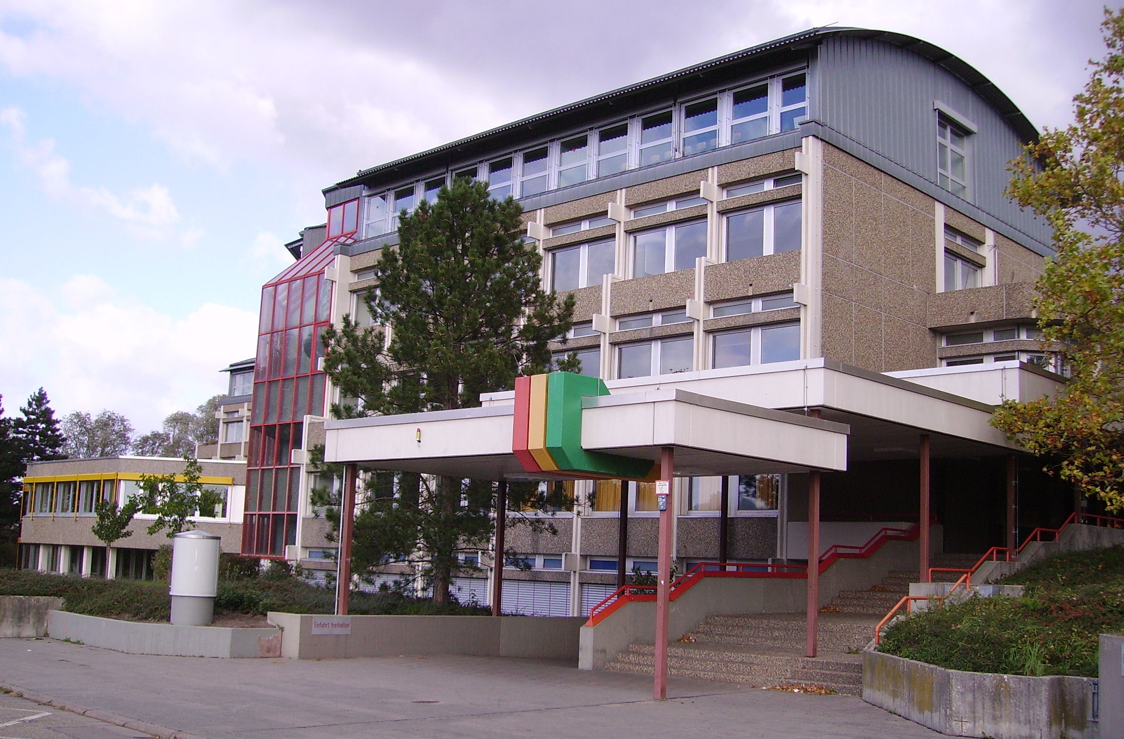 view of Schifferstadt, Germany